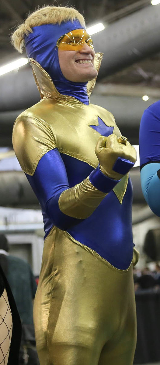 Cosplay of Zatanna, Booster Gold and Blue Beetle at Special Edition: NYC in 2015.